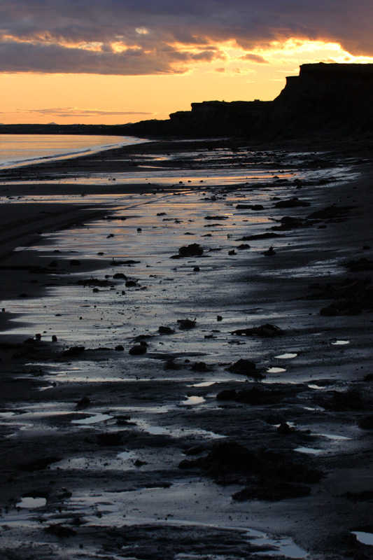 Bristol Bay, Alaska